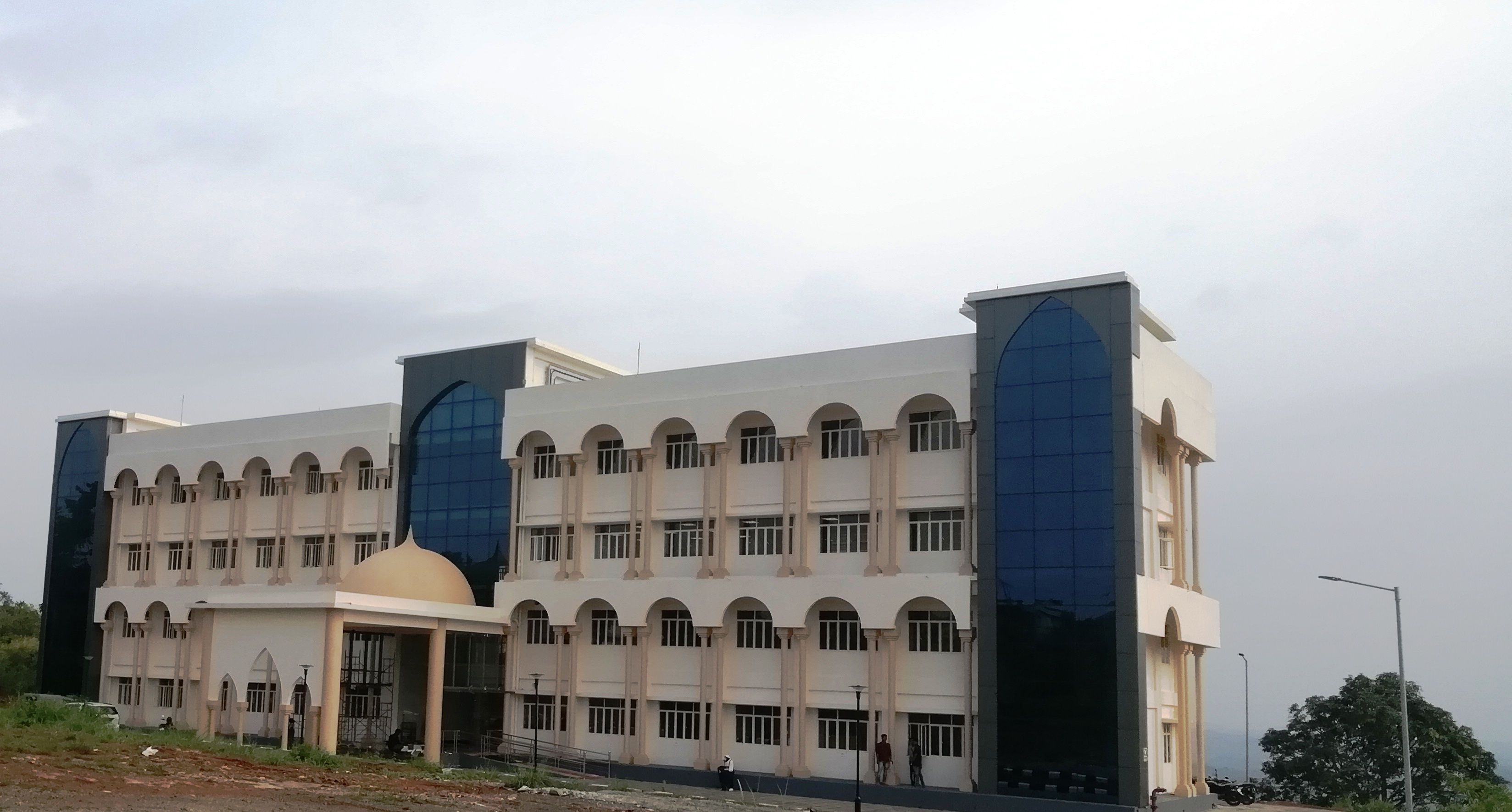 Aligarh Muslim University has established Law Department in Kerala namely, AMU Malappuram Campus at Malappuram Centre